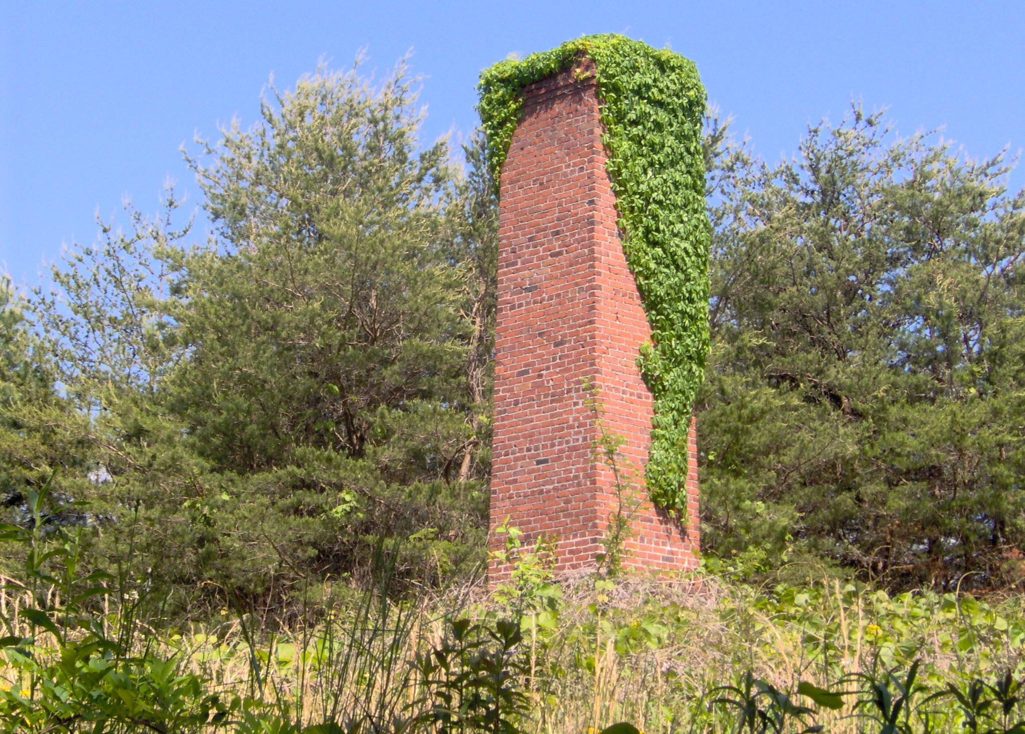 Reconstructed boiler chimney marking the site of the discovery of copper in the Copper Basin in 1843. The chimney is visible from Highway 68 in Ducktown, Tennessee, in the southeastern United States.